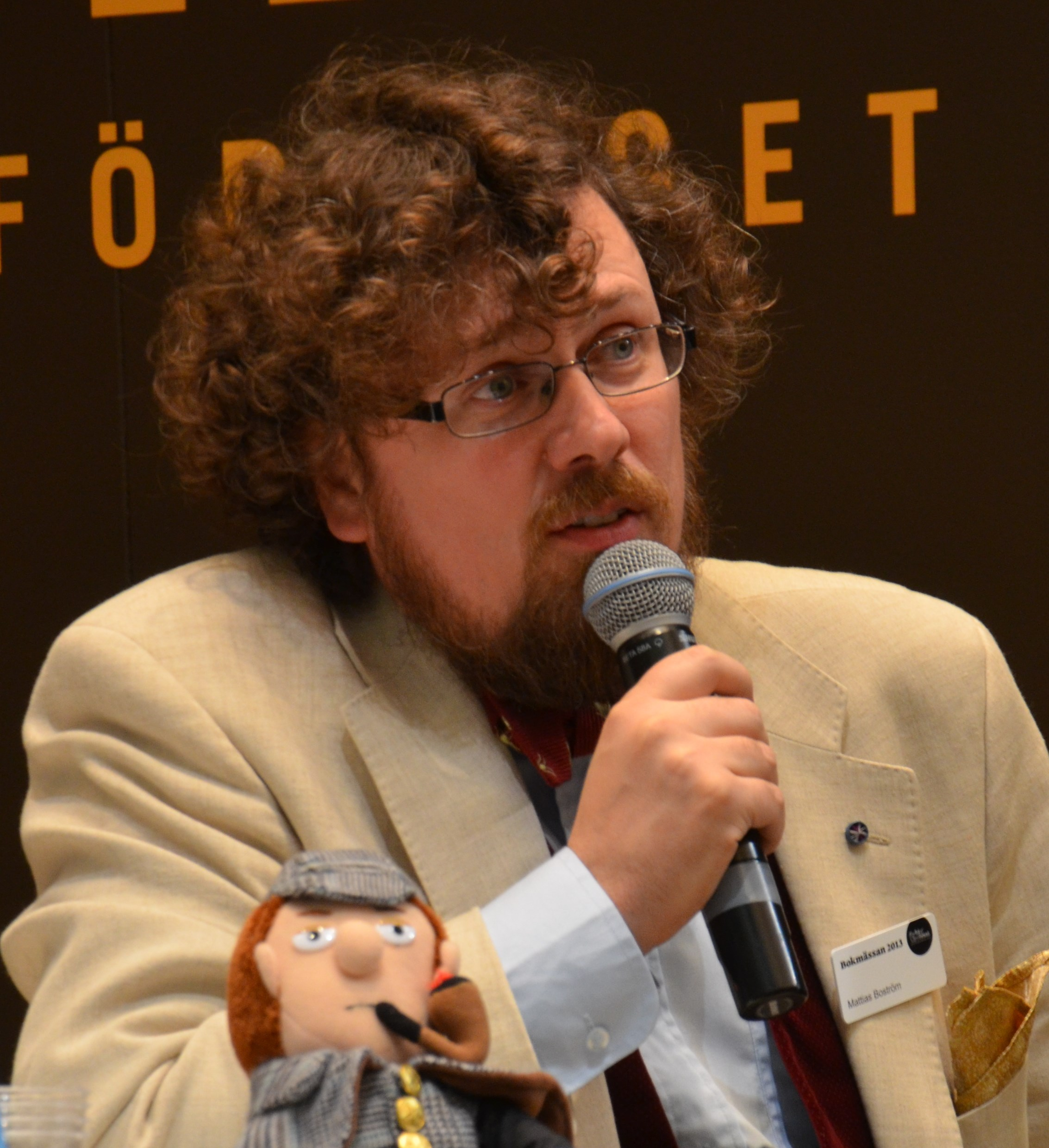 Mattias Boström på Bokmässan 2013